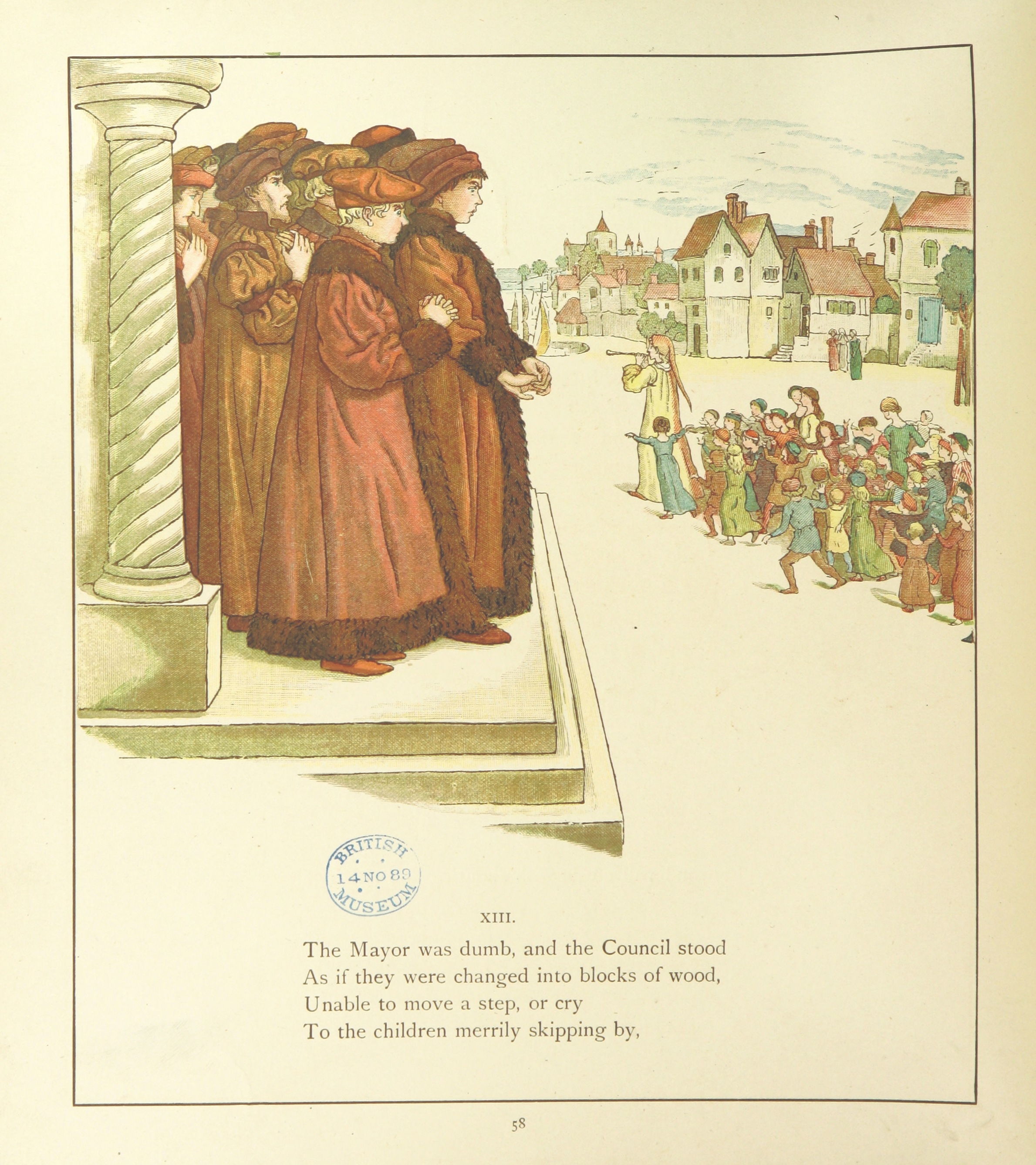 Image taken from: Title: "[The Pied Piper of Hamelin. [Originally published in “Dramatic Lyrics,” no. 3 in the series “Bells and Pomegranates.” ", "Single poems not originally published separately" Author: BROWNING, Robert - the Poet Contributor: Greenaway, Kate Shelfmark: "British Library HMNTS 11648.f.39." Page: 62 Place of Publishing: London Date of Publishing: 1889 Publisher: G. Routledge & Sons Edition: [Another edition.] With 35 illustrations by Kate Greenaway. Issuance: monographic Identifier: 000499488 Explore: Find this item in the British Library catalogue, 'Explore'. Download the PDF for this book (volume: 0) Image found on book scan 62 (NB not necessarily a page number) Download the OCR-derived text for this volume: (plain text) or (json) Click here to see all the illustrations in this book and click here to browse other illustrations published in books in the same year. Order a higher quality version from here.